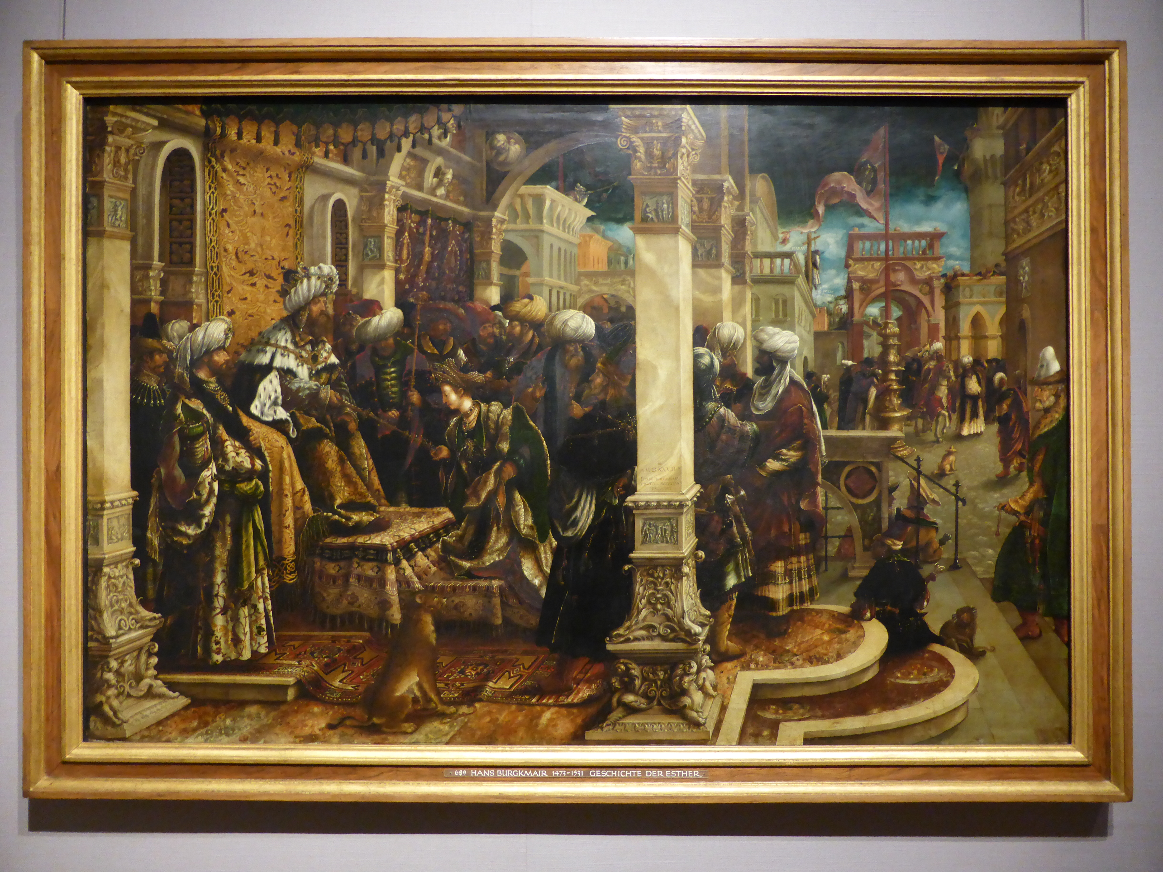 Esther in front of King Ahasuerus touching his sword